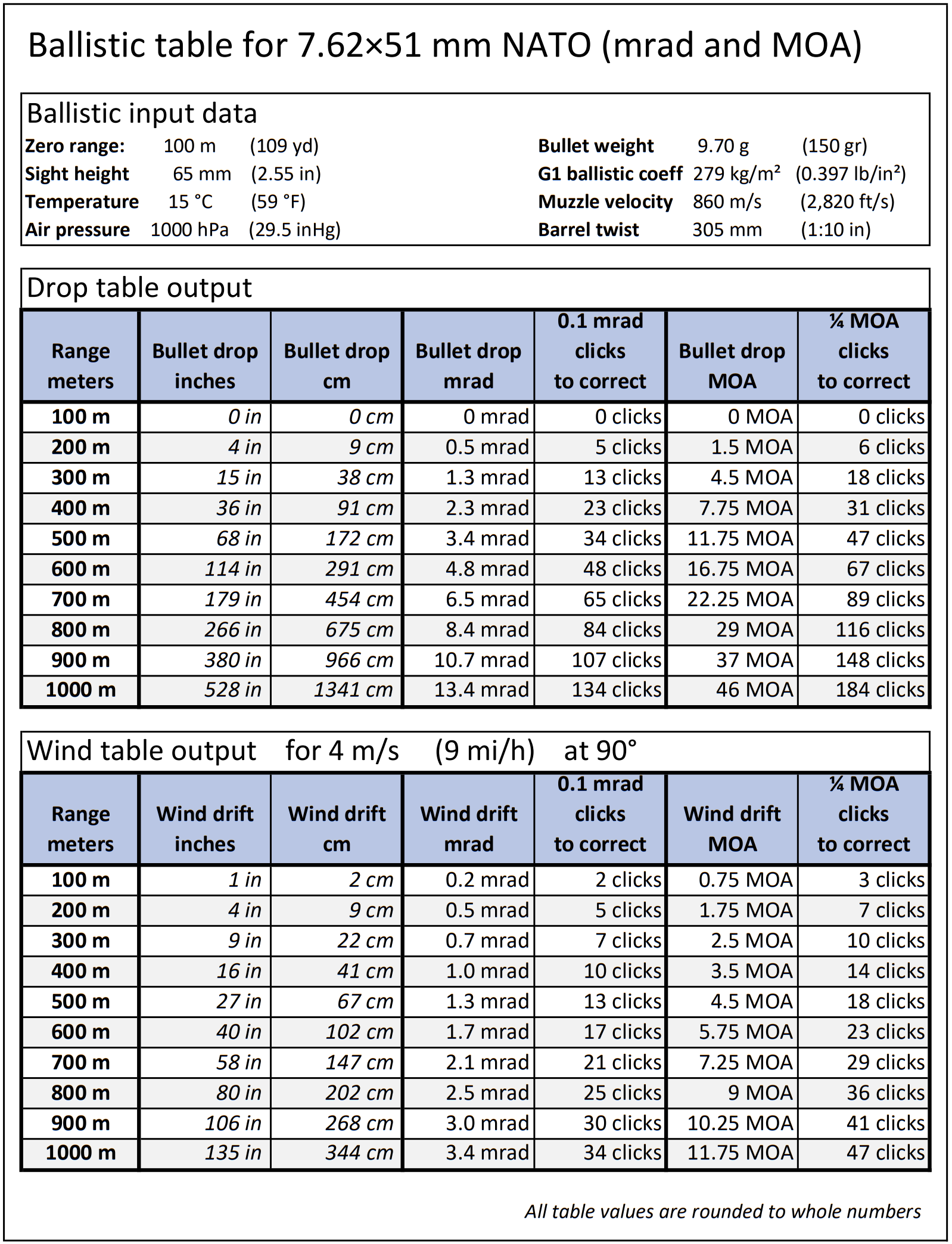 Ballistic table for 7.62x51 mm NATO showing drop and wind drift (4 meters per second). Corrections are shown in both mrad and MOA. All ballistic inputs are listed.